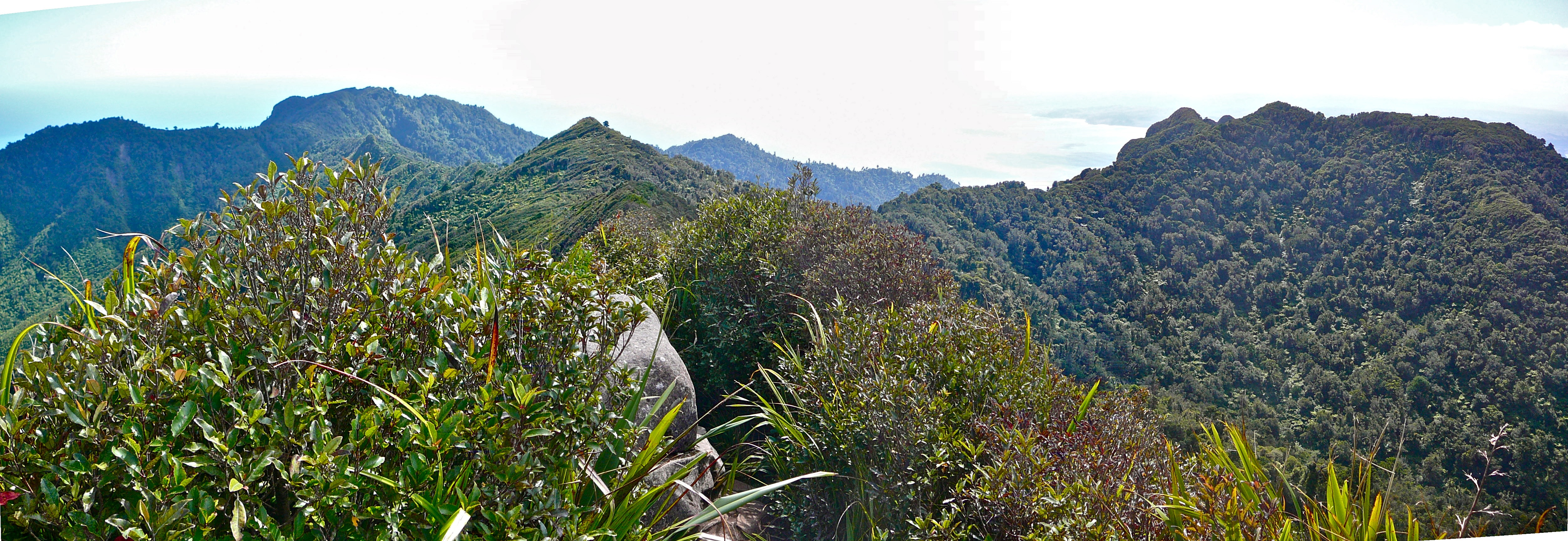 coastline just visible in background